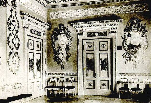 Gatchina. Door to the Chesma gallery of the Gatchina Palace